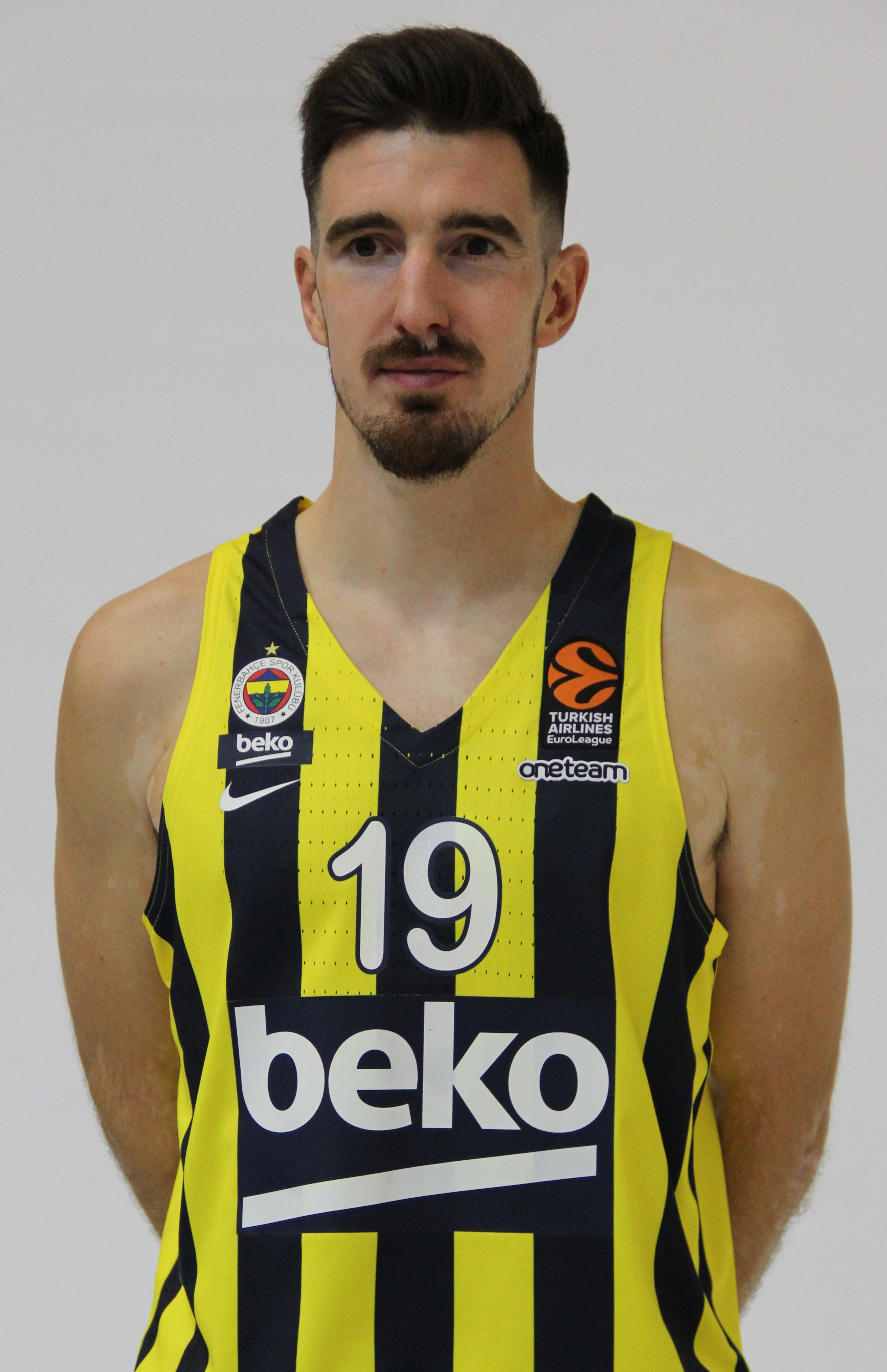 Nando de Colo 19 Fenerbahçe Basketball 20190923